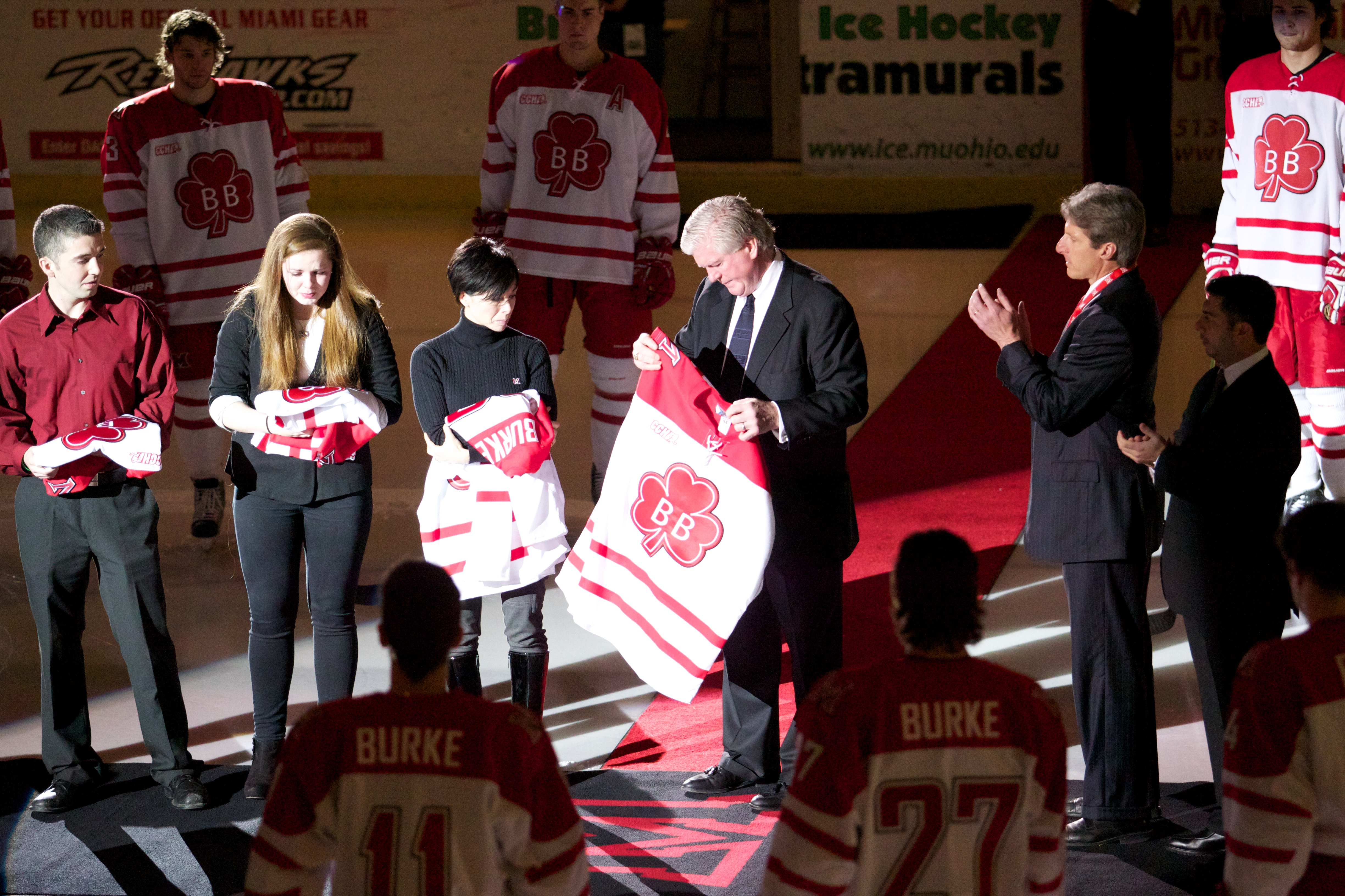 The Burke family is presented jerseys memorializing their son Brendan, a student manager for the Miami hockey team who was killed in a car accident last year. Brian Burke is the President and General Manager of the NHL Toronto Maple Leafs.